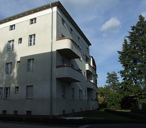 Impression of the housing estate Glienicker Weg/Zinsgutstraße at Berin-Adlershof